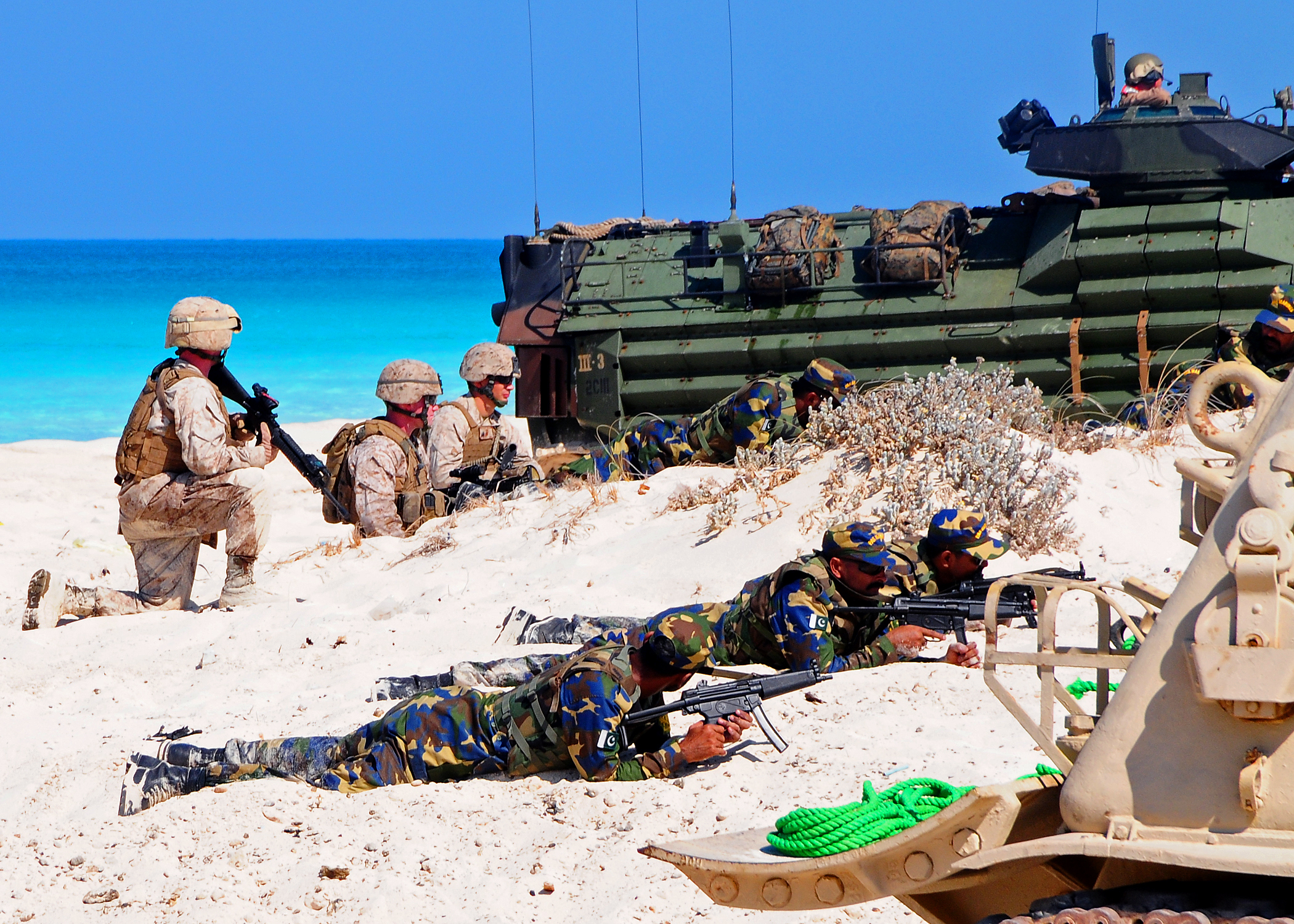 ALEXANDRIA, Egypt (Oct. 12, 2009) Marines assigned to the 22nd Marine Expeditionary Unit (22nd MEU), along with Marines from Kuwait and Pakistan, conduct an amphibious assault demonstration during Exercise Bright Star 2009. Bright Star is a biennial, multinational exercise designed to improve readiness, interoperability, and strengthen the military and professional relationships among U.S., Egyptian and participating forces. Bright Star is conducted by U.S. Central Command. (U.S. Navy photo by Mass Communication Specialist 2nd Class Kiona Miller/Released)